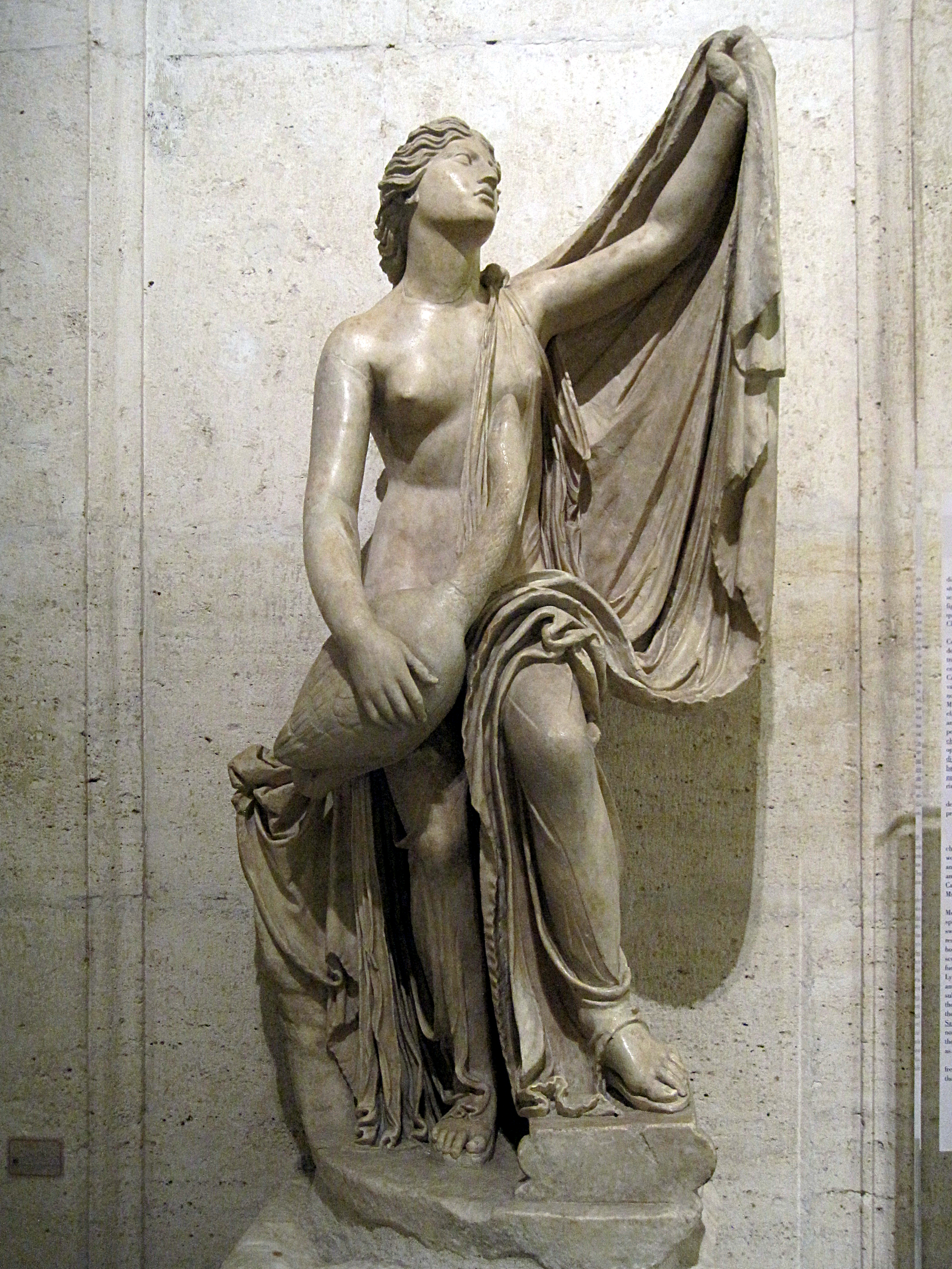 Roman copy after a Greek original of the 4th century BC.